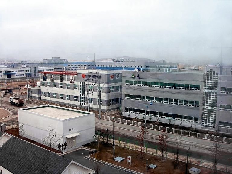 Model Industrial Complex (factories) in Kaesong (Gaesong) Industrial Area, DPRK.